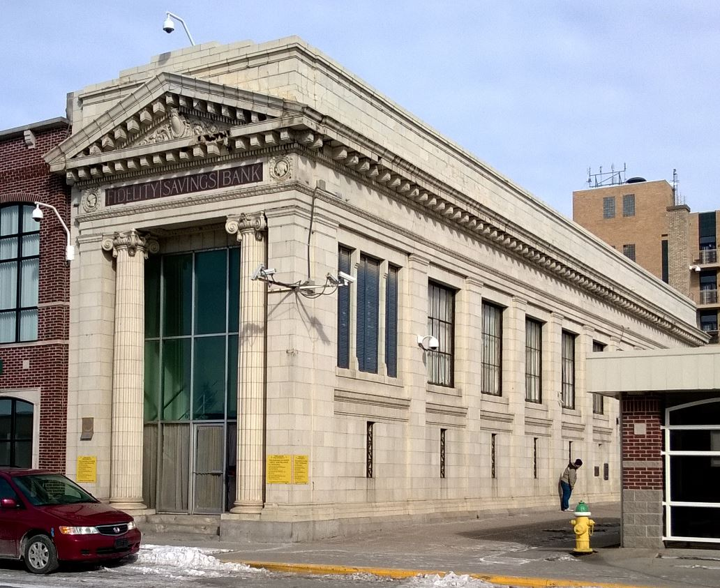 Photograph of the old First National Bank of Ottumwa, IA.